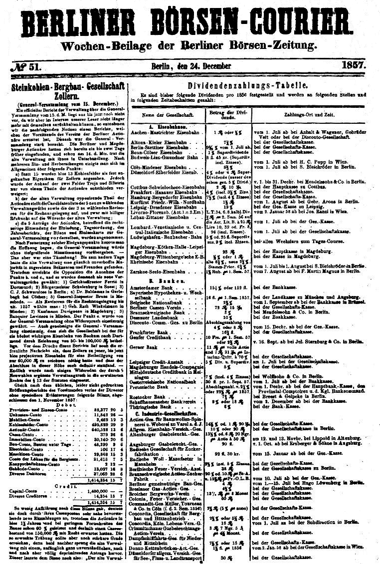 Newspaper front page of Berliner Börsen-Courier no. 51 as of 24 December 1857, weekly supplement of Berliner Börsen-Zeitung until 1868.